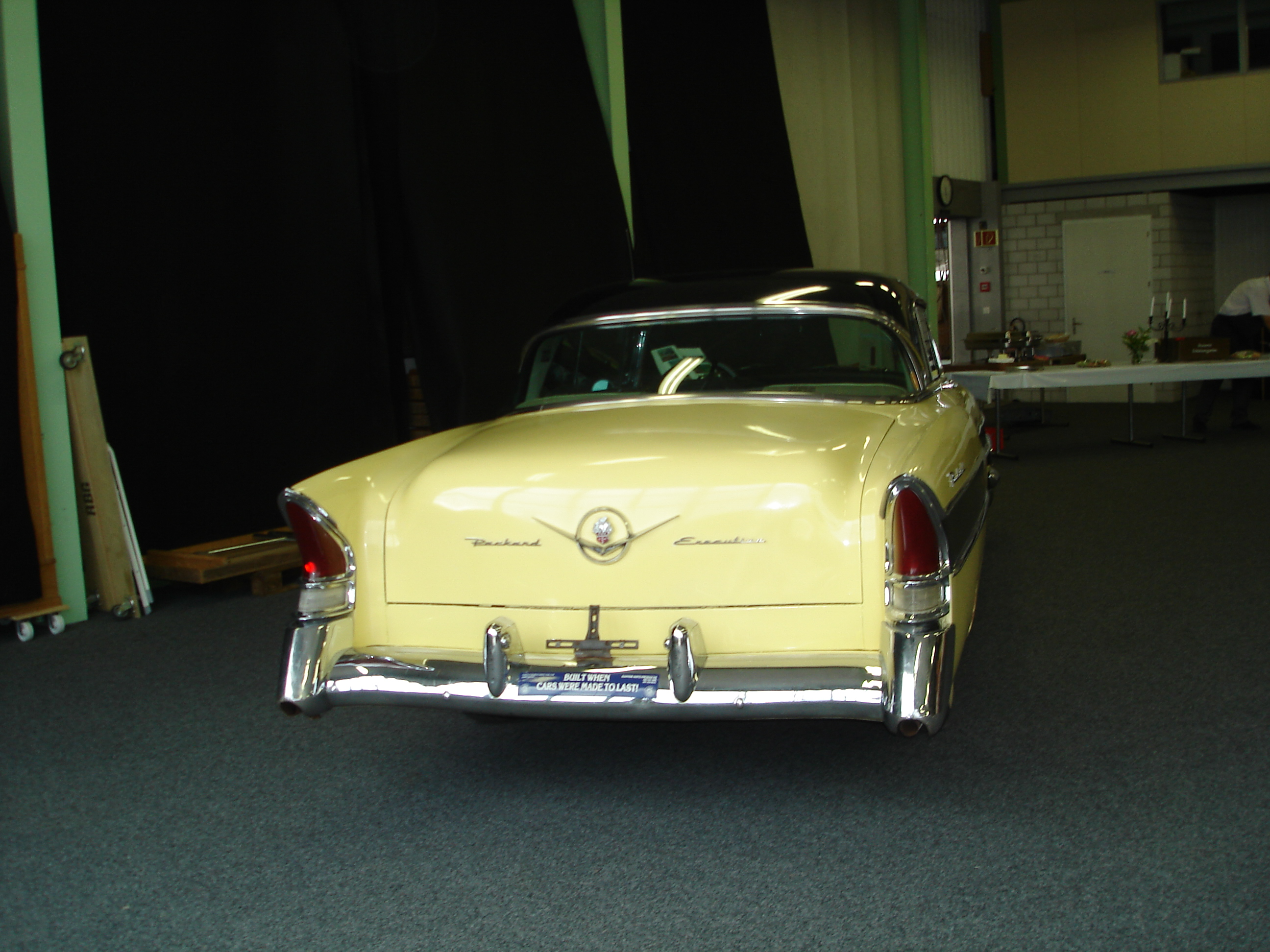 1956 Packard Executive (model 5677) rear